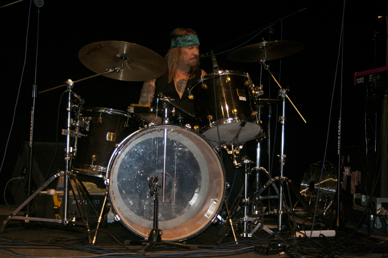 Matt Abbts performs with Planet of the Abts in Cracow, Poland, September 2012